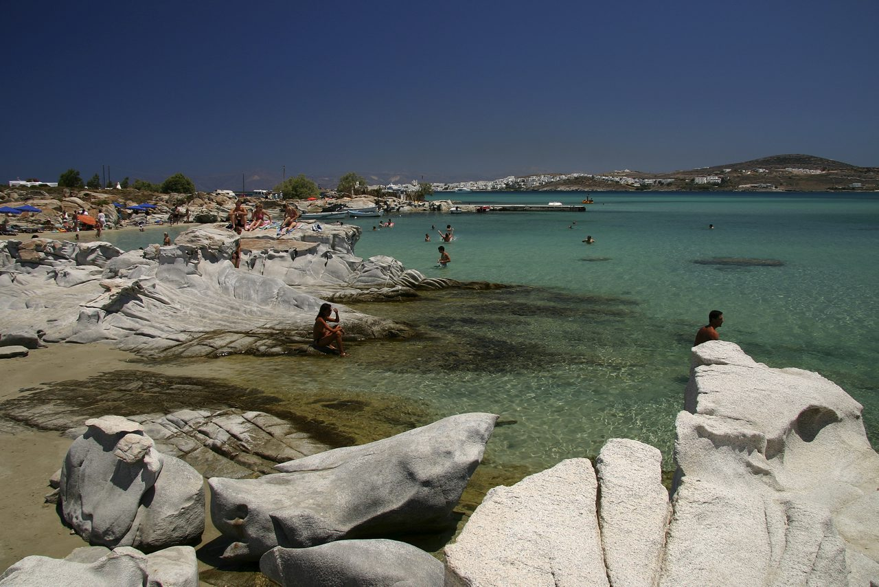 Kolympithres beach outside Naoussa, Paros - Greece.